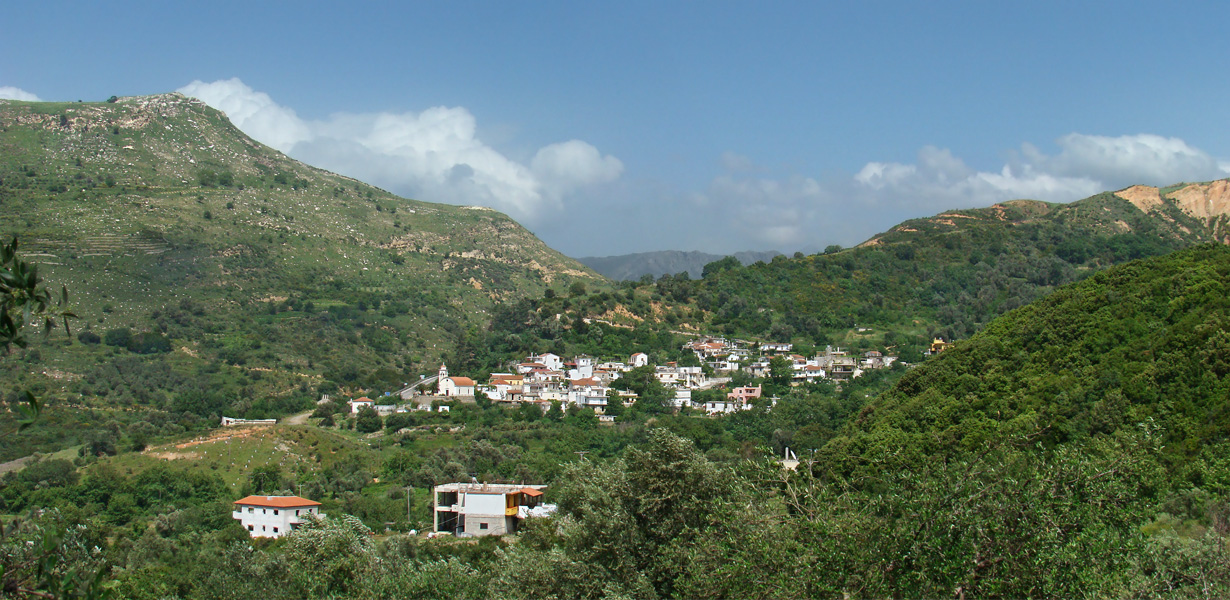 Pantanassa, Crete, Greece.